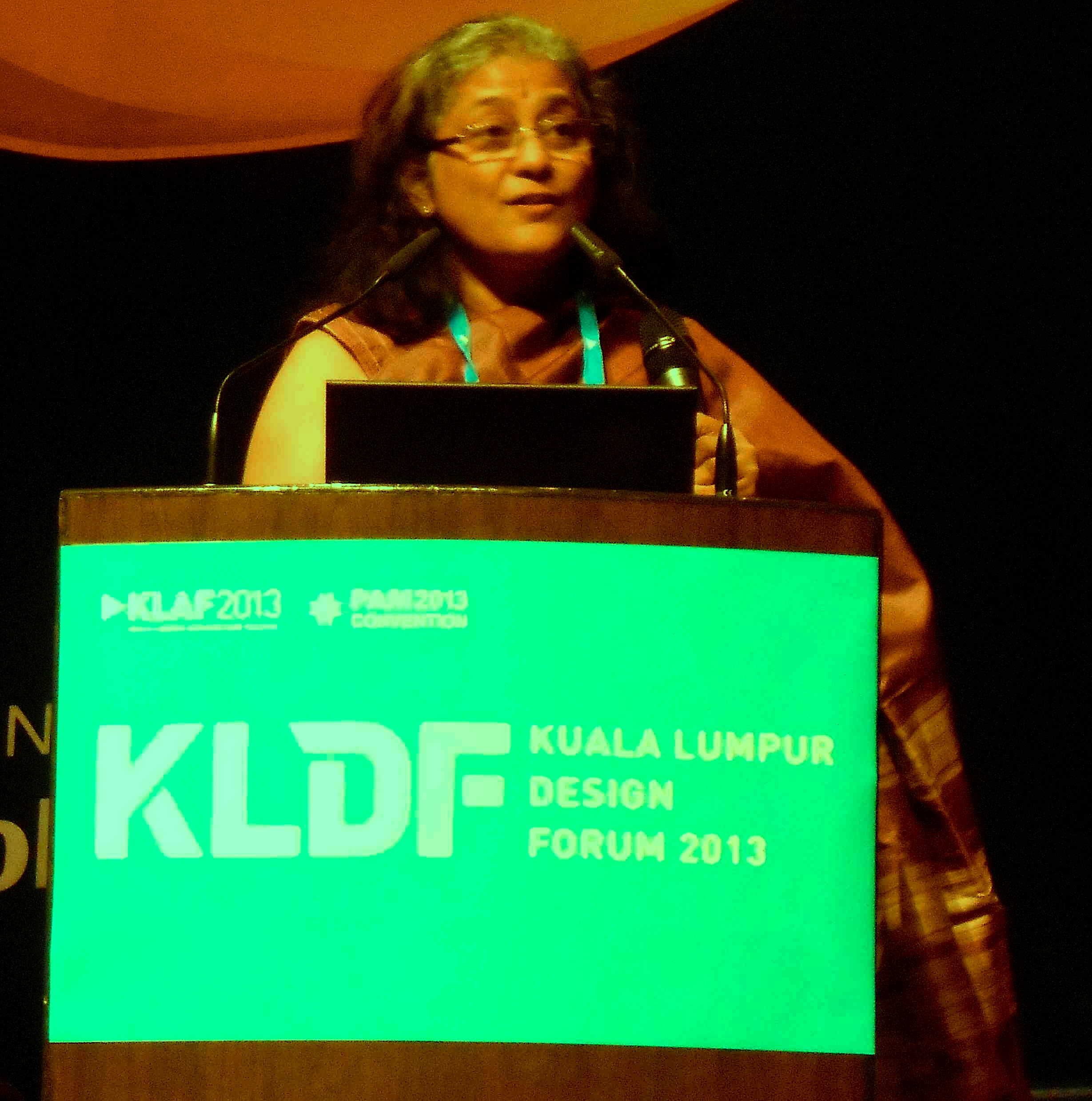 Sheila Sri Prakash Addressing Kuala Lumpur Design Forum 2013 Summit.jpg